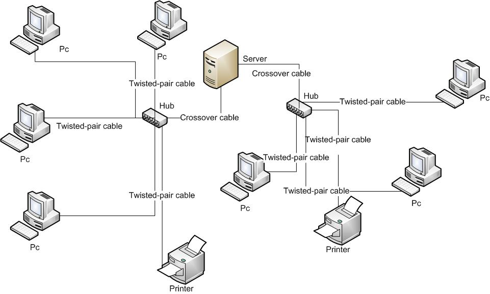 Network Interface Cards: NICs that are on a network must have at least one protocol bound to it within the OS. This way that instance of the NIC can let the OS reach the rest of the network with that protocol. Cabling questions will not be on the test Servers: Servers are more effective when specialized to do one thing. For example, one mail server, one file server, one print server, etc… However one server can also do all these takes, but to the detriment of performance. Note about servers: Physical security is just as important as network security regarding servers. If there is unwanted access to the physical location of your server, you are not secure. Repeaters: just as the name implies…it repeats the signal. Repeaters are needed because of attenuation (degradation of signal) this can happen because of distance or resistance. However, you just can’t keep putting repeaters indefinitely as this will cause the networks to time out because of lack of response time. Bridge: Works at the data link layer of the OSI model. A bridge can separate a signal into two. But it will still appear as one signal to the network. Hub: I have always remembered hubs as being the dumb one in the group. All they do is redistribute the signal they get in to anybody else that is plugged in. Switch: The smarter one, it essentially knows where the traffic should be directed, unlike hubs. Also it can avoid collisions. Router: Smartest, It can connect dissimilar network segments into an internetwork. It can route network traffic according to performance. Modems:  Analog Modems Easy, the 56k used by POTS.  Cable Modems Transmission rates up to 10 mbps, (depends on how many people are connected at the time around your area), it is a shared service.  xDSL Modems xDSL is not a modem per se, it’s more of a configuration that requires a modem and a NIC. Firewalls: Monitors all traffic going in and out of the network and detects and stops (hopefully) malicious activity